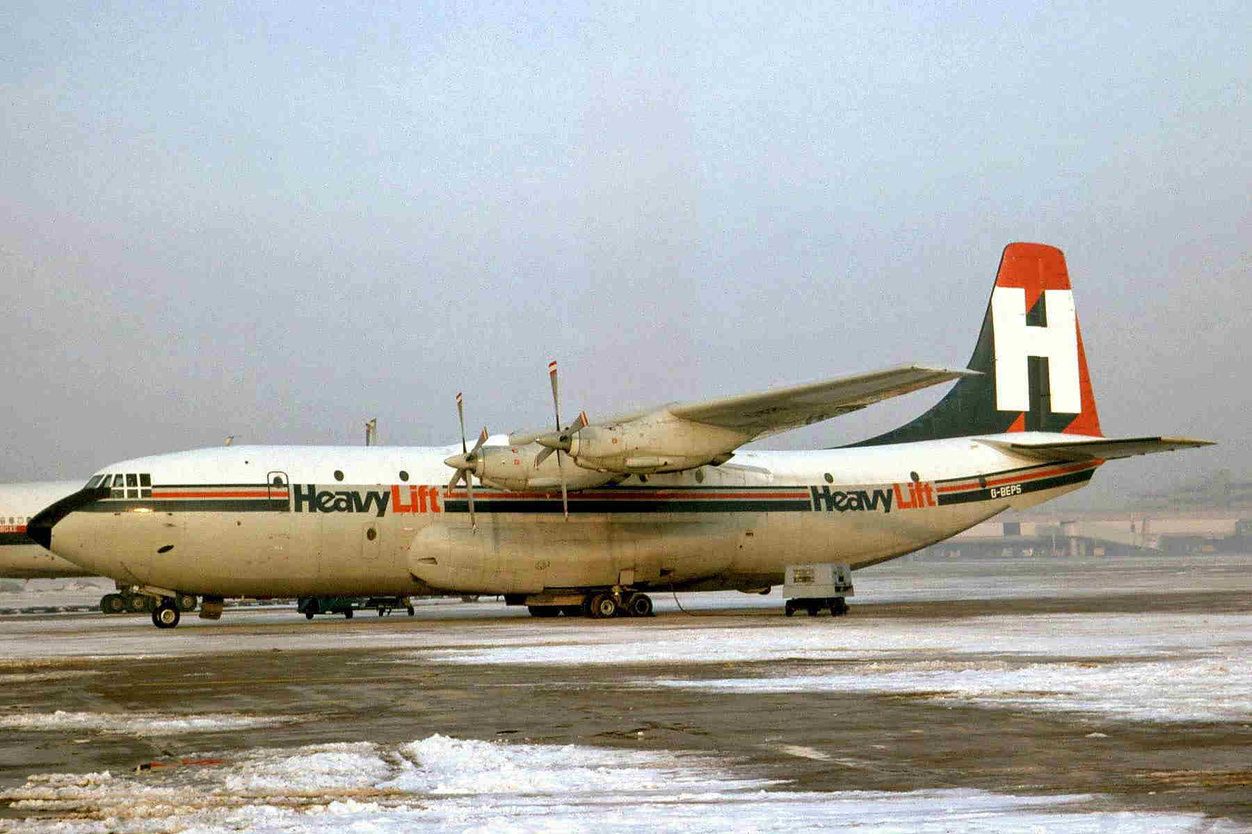 A picture of an airplane (name of it is on the file name).